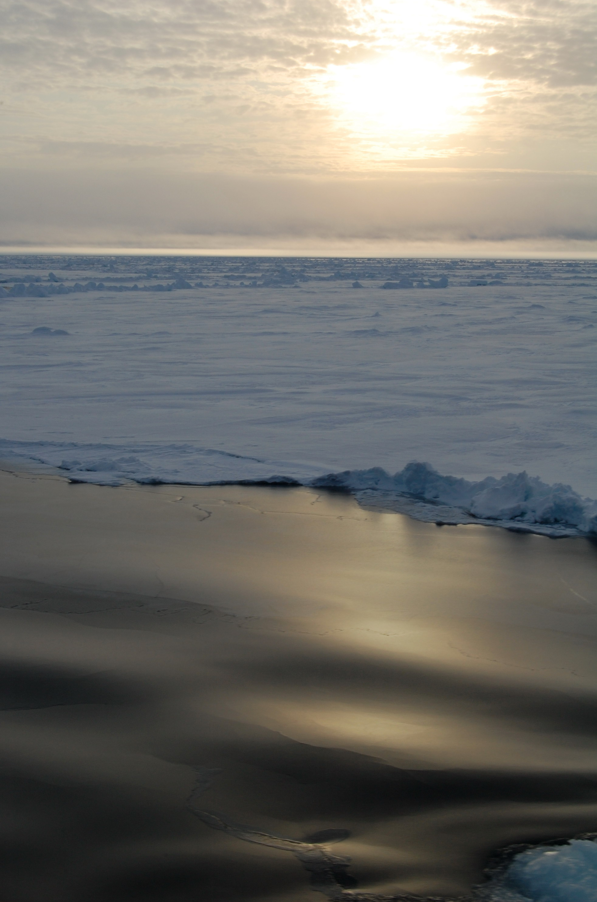 Nilas in the foreground and ice pack in the background